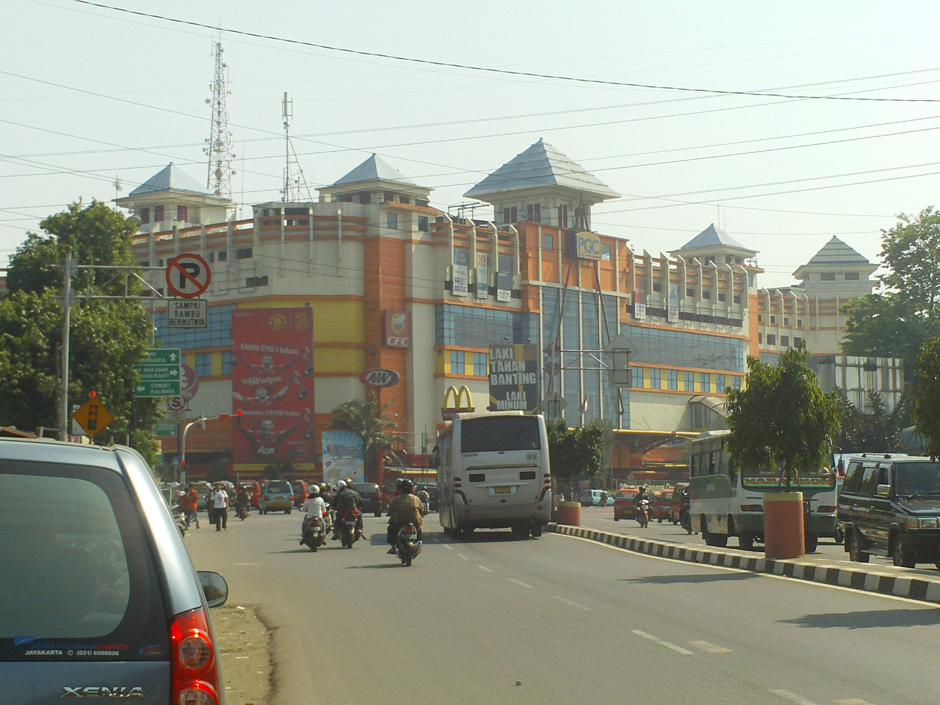 Pusat Grosir Cililitan (Cililitan Wholesale Center), Jakarta